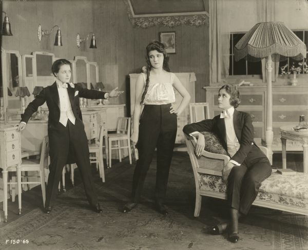 Three English girls who were raised as boys, from left to right: Tommy (played by Marguerite Clark), Willie (Eleanor Lawson), and Noel (Helen Greene) in a publicity still for the American silent comedy film The Amazons (1917). Has film still code F150.